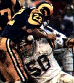 Minnesota Vikings linebacker Jeff Siemon (center) tackling Los Angeles Rams running back John Cappelletti (left) in the 1977 NFC Divisional Playoff Game on December 26, 1977.